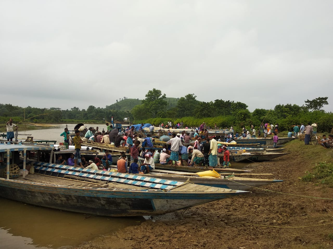 This photo shows the usage of boats and river transport for travel during weekly market in Matia, Goalpara district.